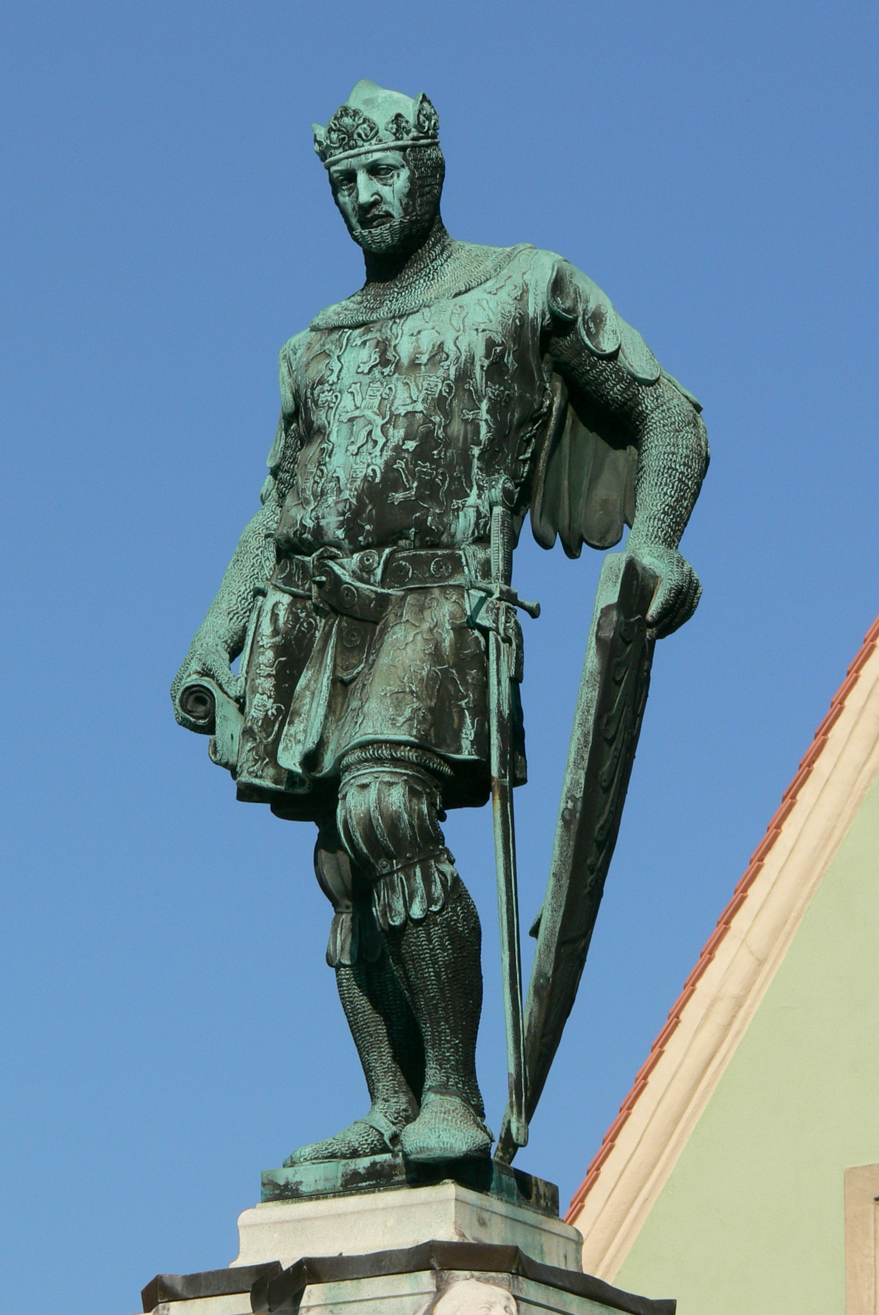 Weißenburg ( Bavaria ). Emperor-Louis-Fountain ( 1903 ): Statue of Louis IV, Holy Roman Emperor.